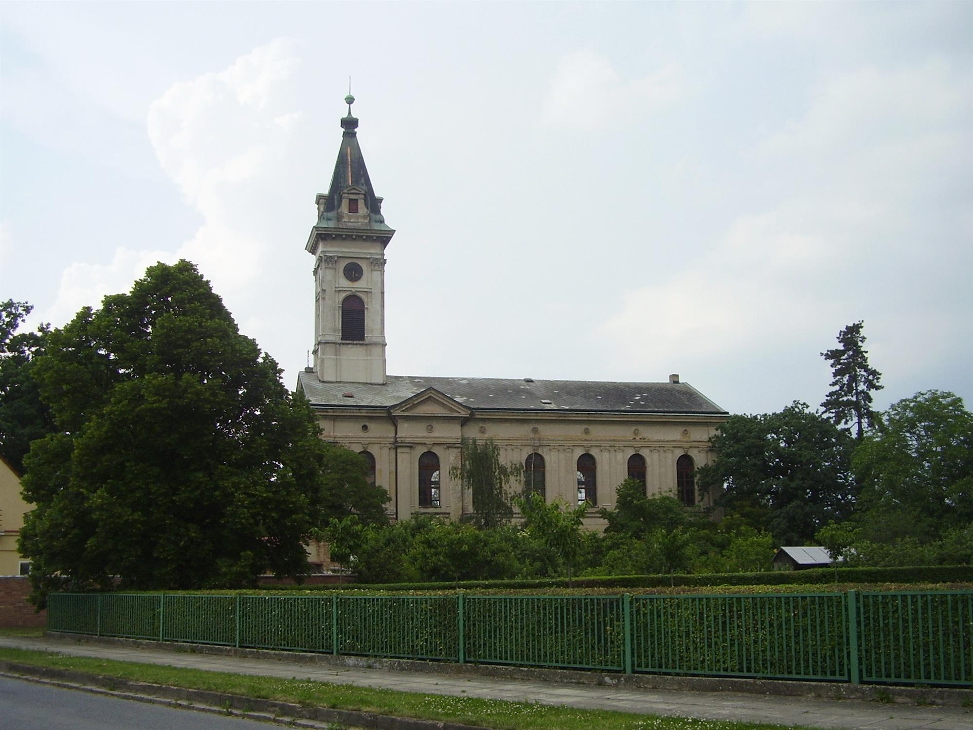 Church in Krabčice, Ústí nad Labem Region, Litoměřice District